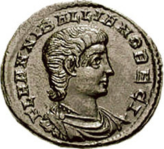 Hannibalianus 335-337 AD. Æ Follis. Constantinople mint. FL HANNIBALIANO REGI, bare-headed, draped and cuirassed bust right SE-CVRITAS PVBLICA, river-god Euphrates reclining right; CONSS. RIC VII 147; LRBC 1034.